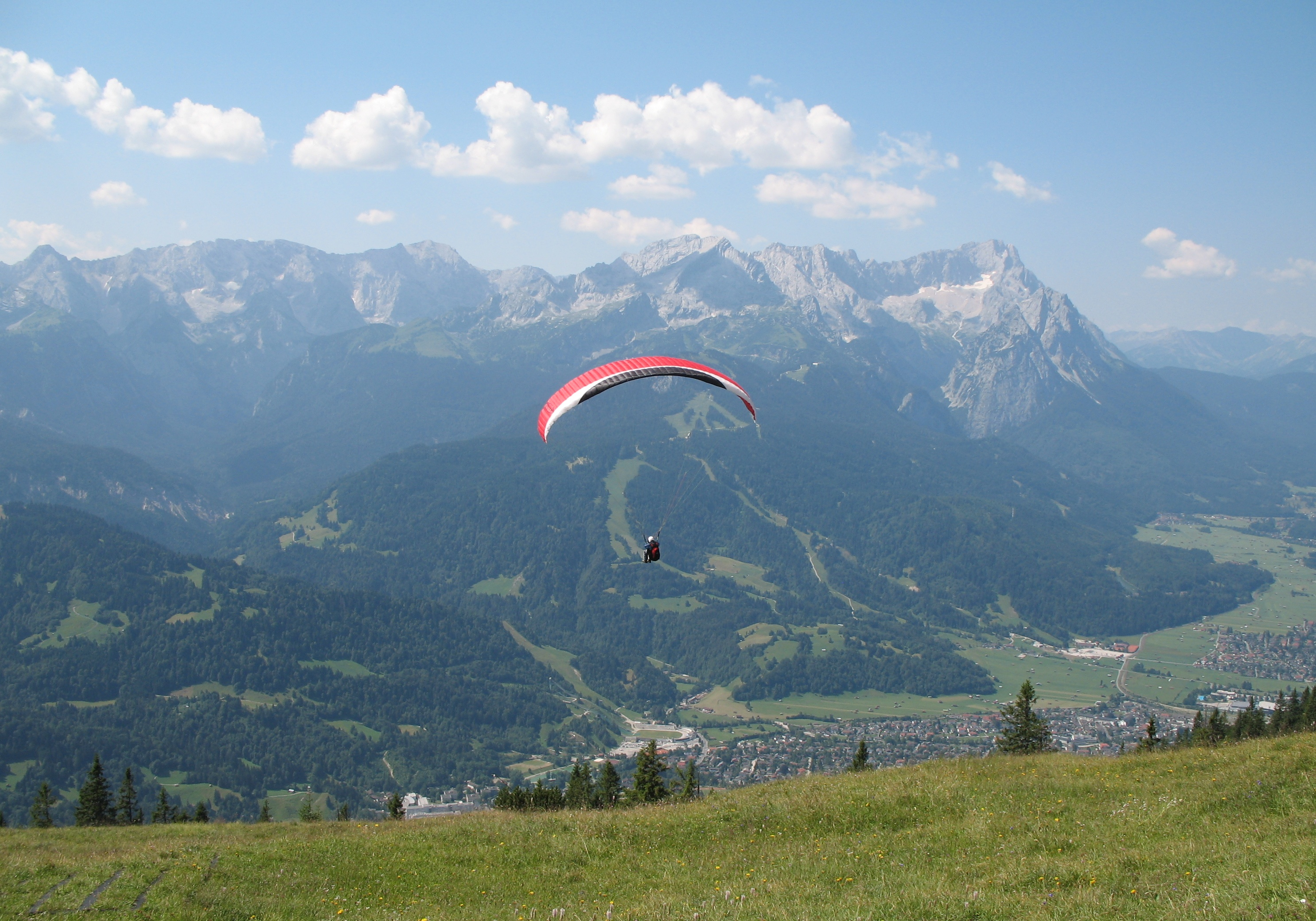 Paraglider recently started from Wank mountain in front of Wetterstein mountain range